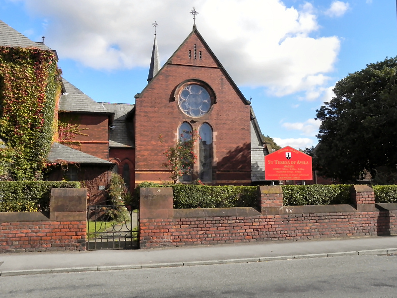 Photograph of the Church of St Teresa of Avila, Birkdale, Southport, Merseyside